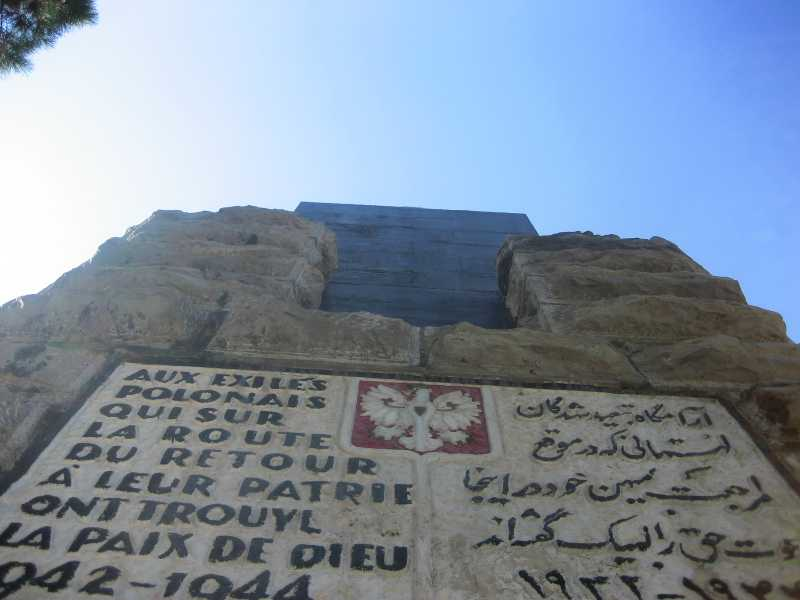 Polish Cemetery in Tehran